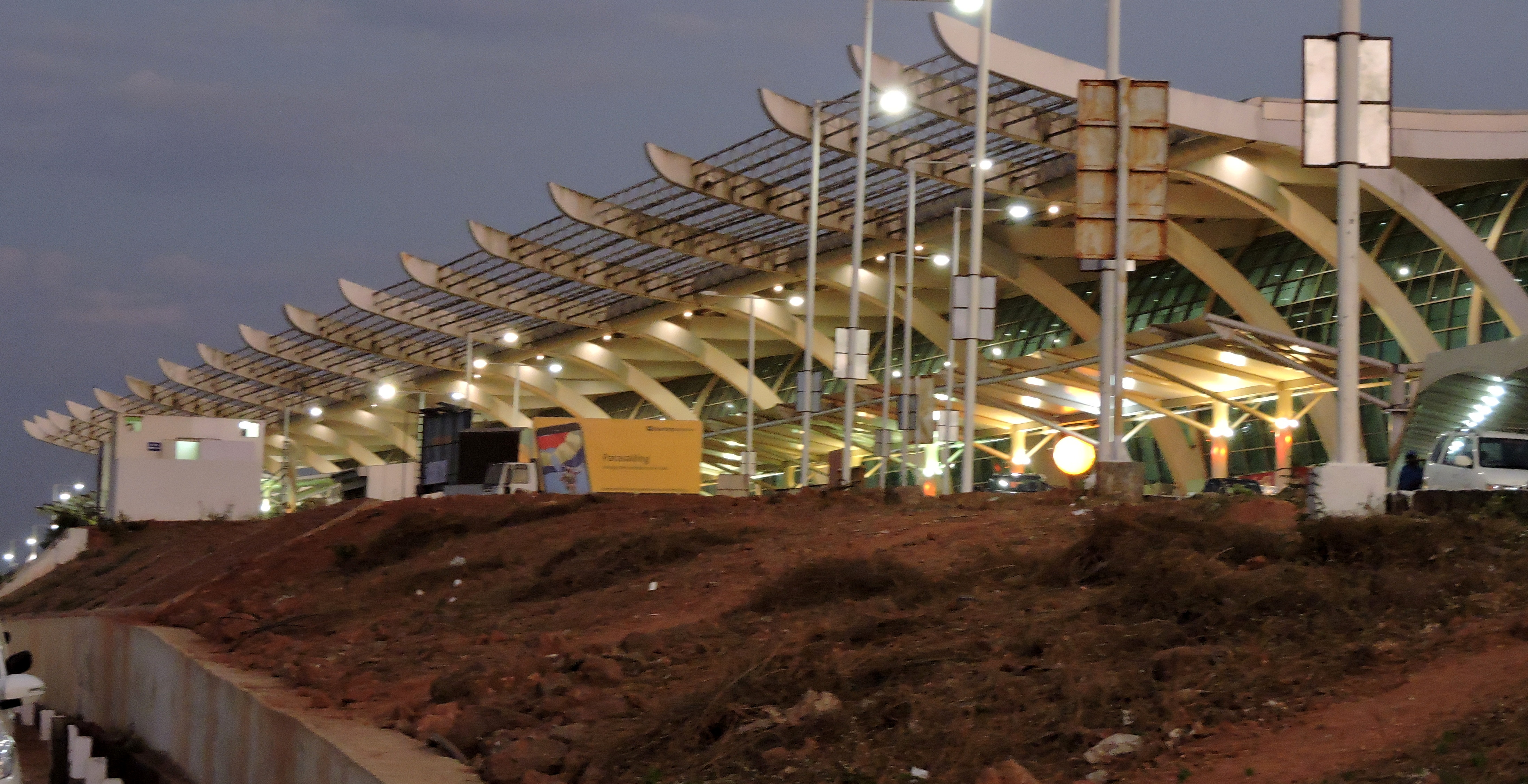 Goa International Airport,India